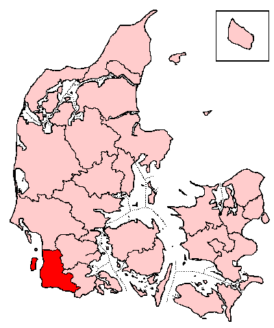 Map of Tønder County 1793-1970